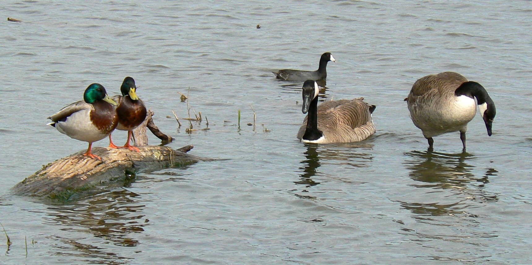 Mallards, Canada Geese and American Coot at Chalco Hills Recreation Area